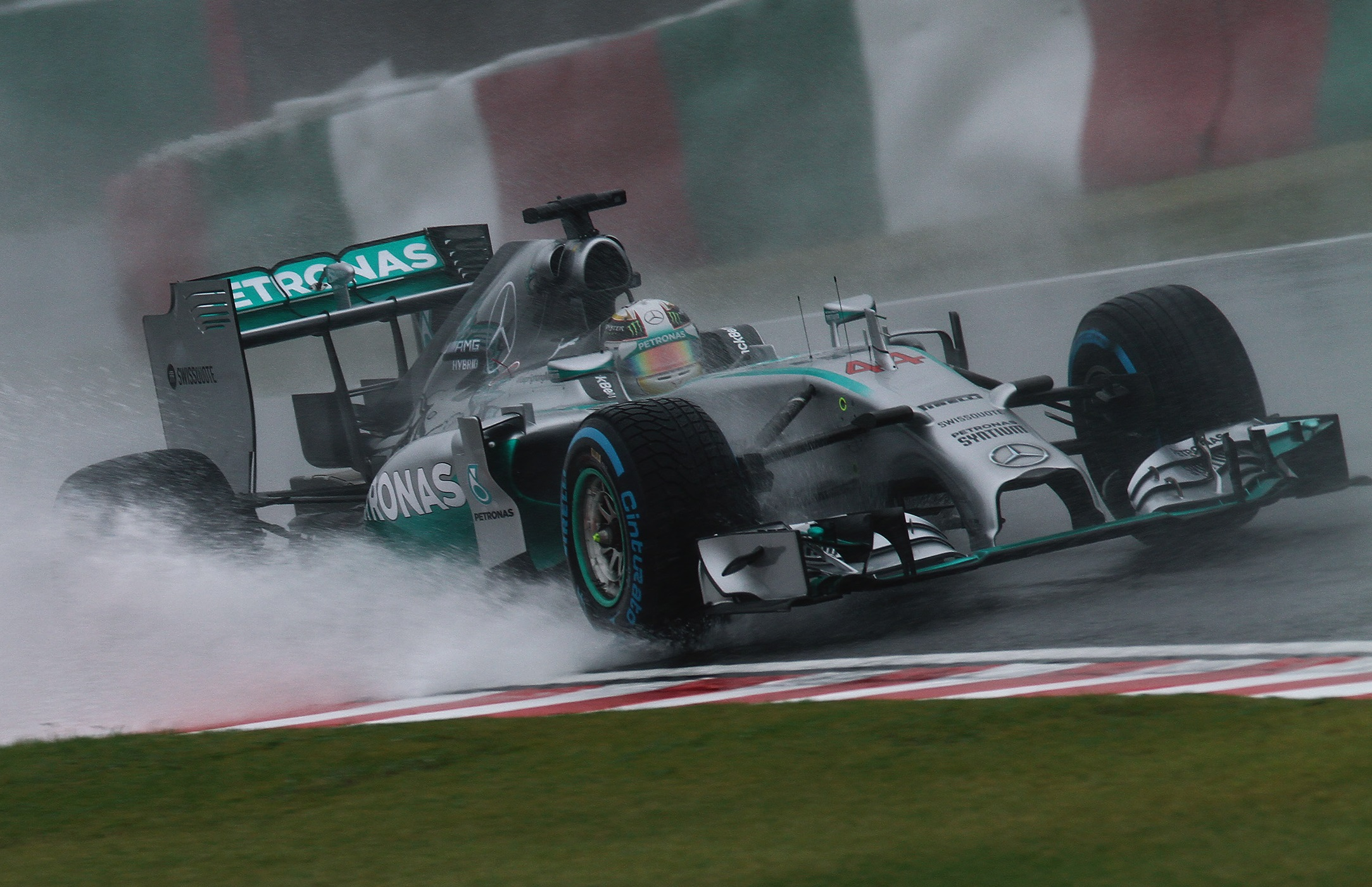 44 Lewis Hamilton at 2014 Formula 1 Japanese Grand Prix.